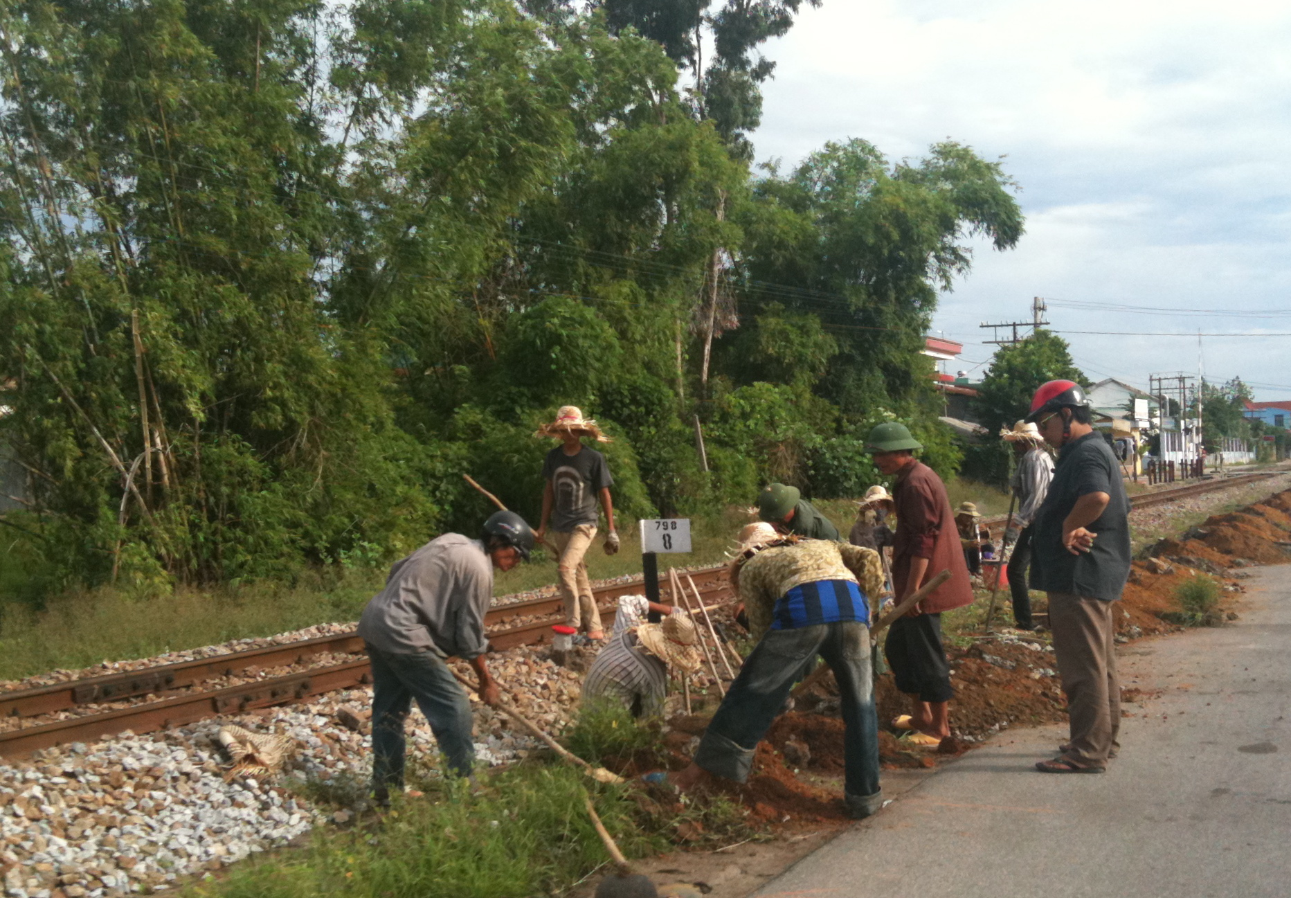 Workers dig up the road shoulder next to the North-South Railway line in Hoa Vang District, Da Nang, Vietnam.